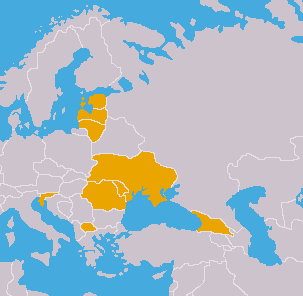 Map of the Community of Democratic Choice, created by me, by cropping/modifying Image:Turkestan.png of Benutzer:Postmann Michael. Aris Katsaris 18:47, 11 March 2006 (UTC)